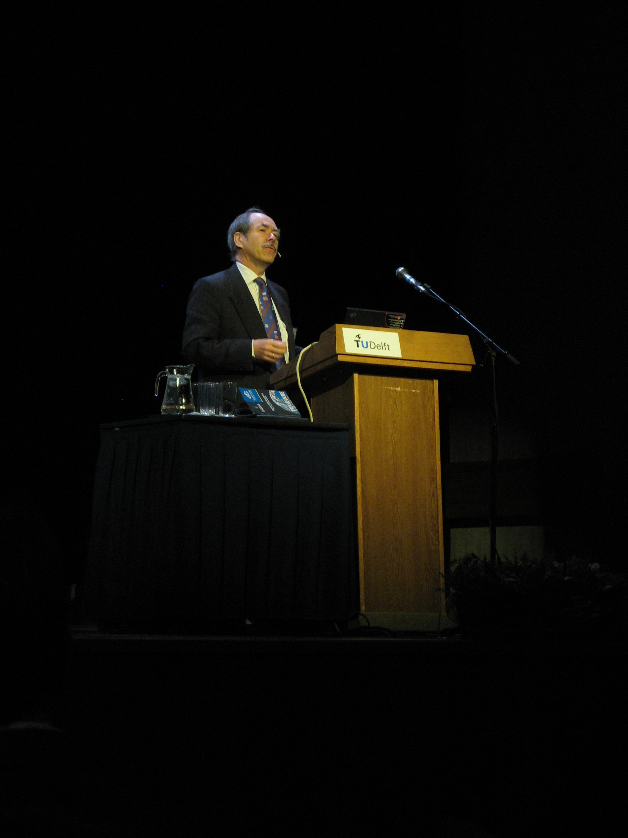 Gerard 't Hooft at the Space for Society symposium.